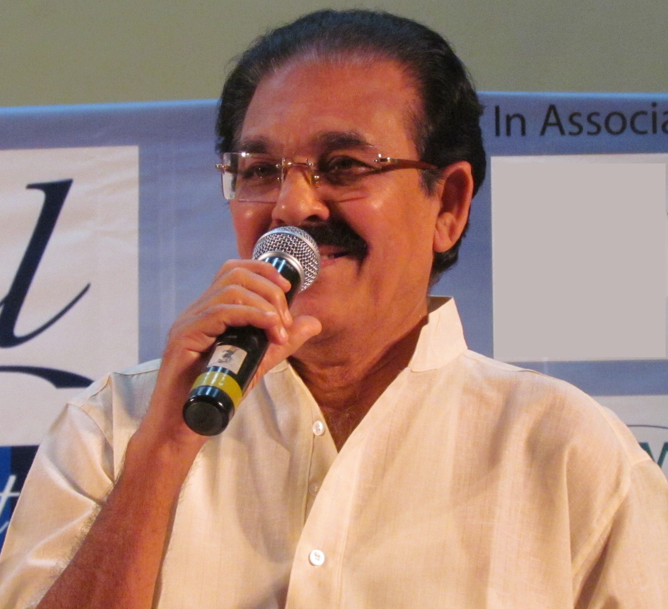 maappila song singer VM kutty